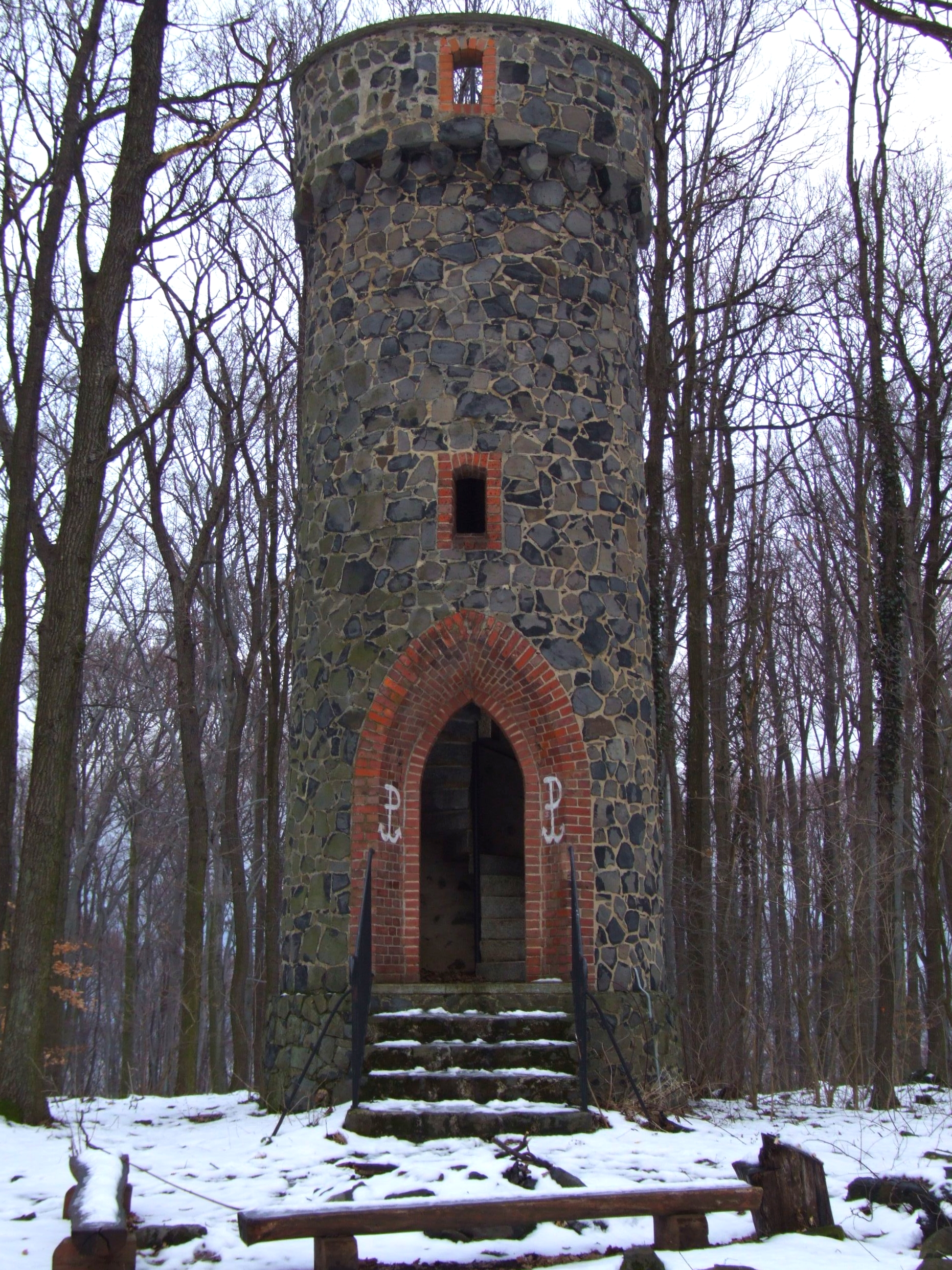 Tower on the Bazaltowa Góra (Breitenberg), Lower Silesia